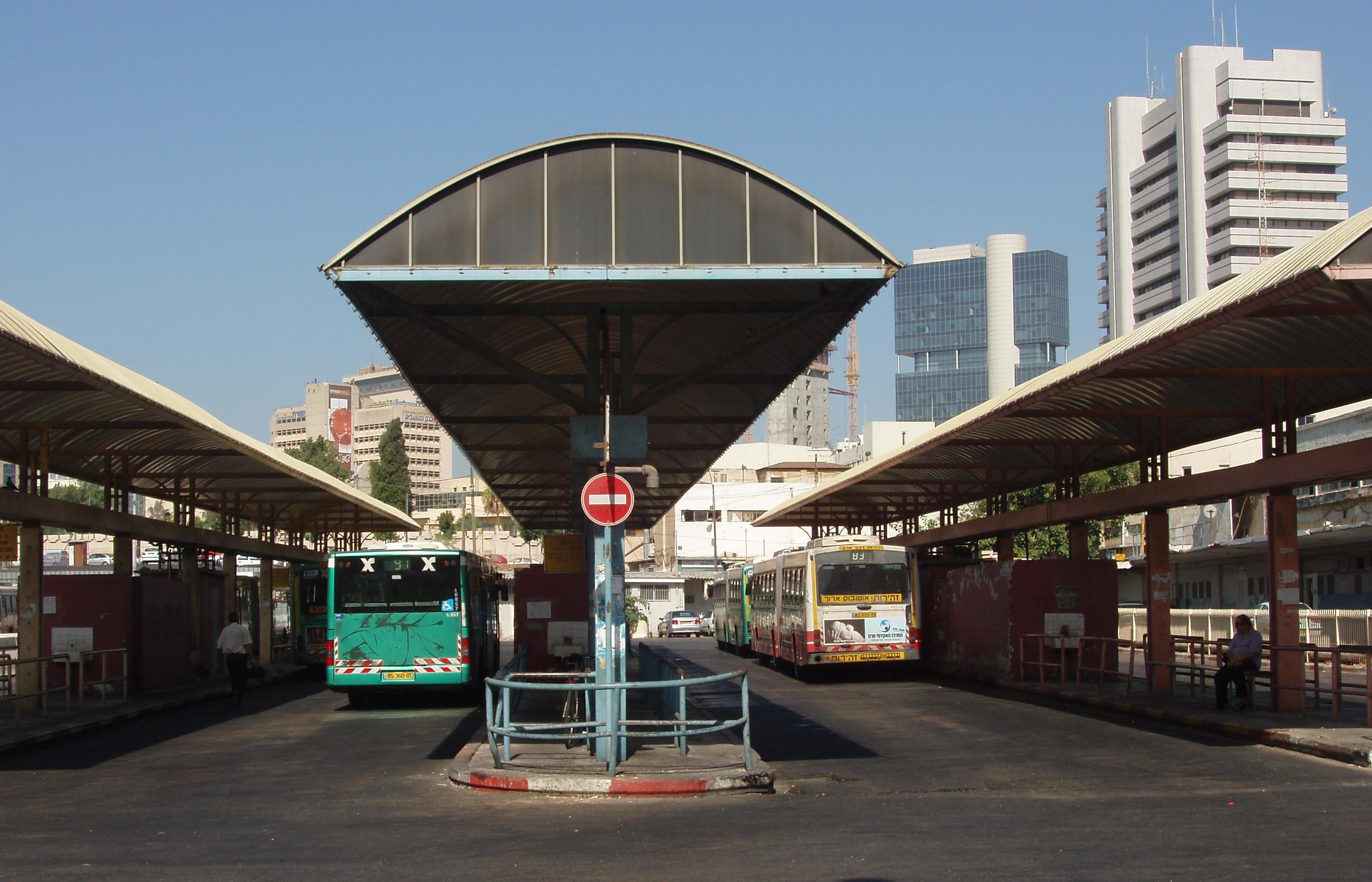 Tel Aviv, Old Central Bus Station. Picture taken by David Shay